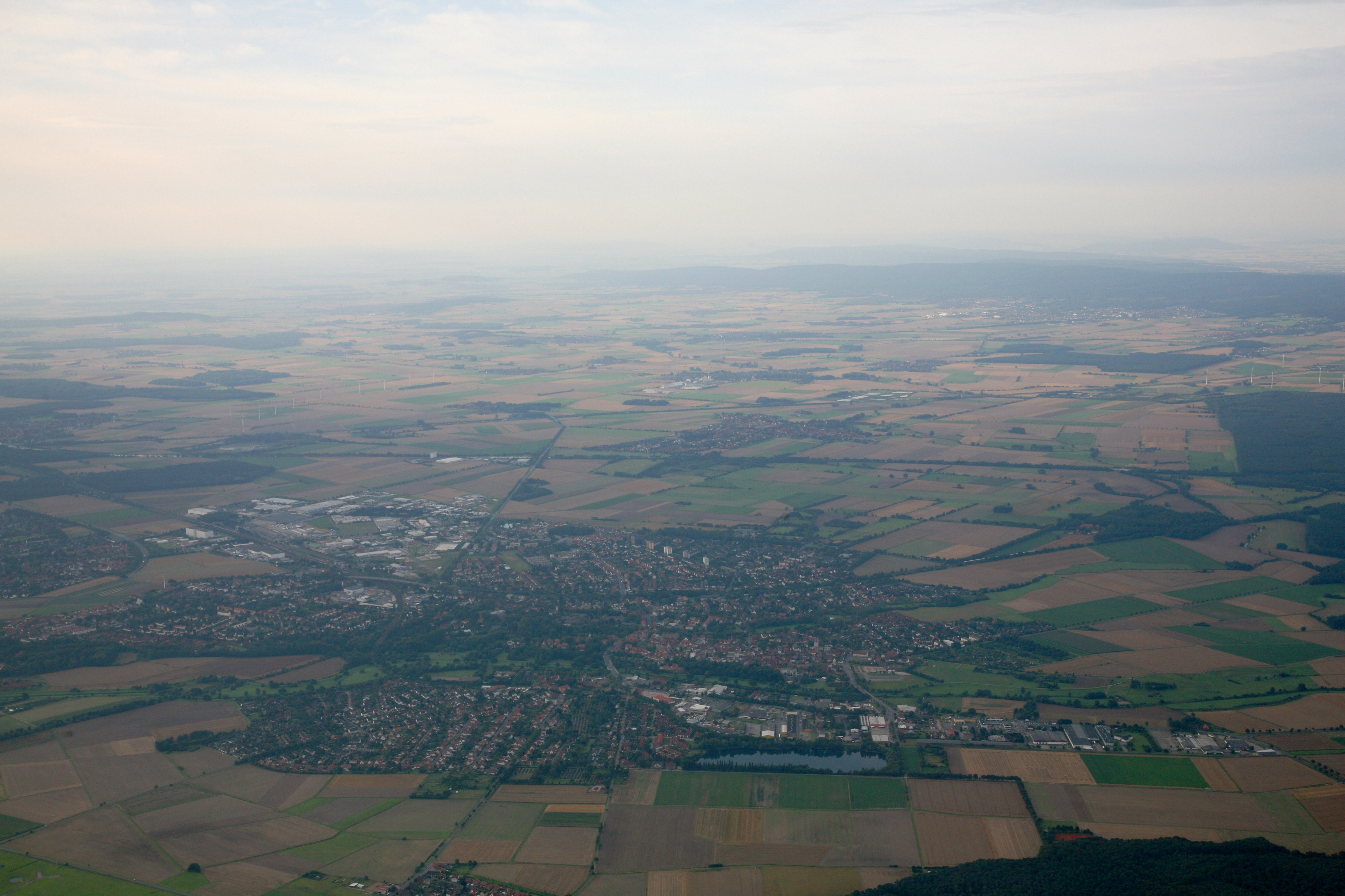 Aerial shot of the town of Wunstorf near Hannover, Germany. Image taken during an Air Berlin flight from Zürich to Hannover. The camera is facing approx. south, Mittelland channel and the A2 motorway are visible in the background.